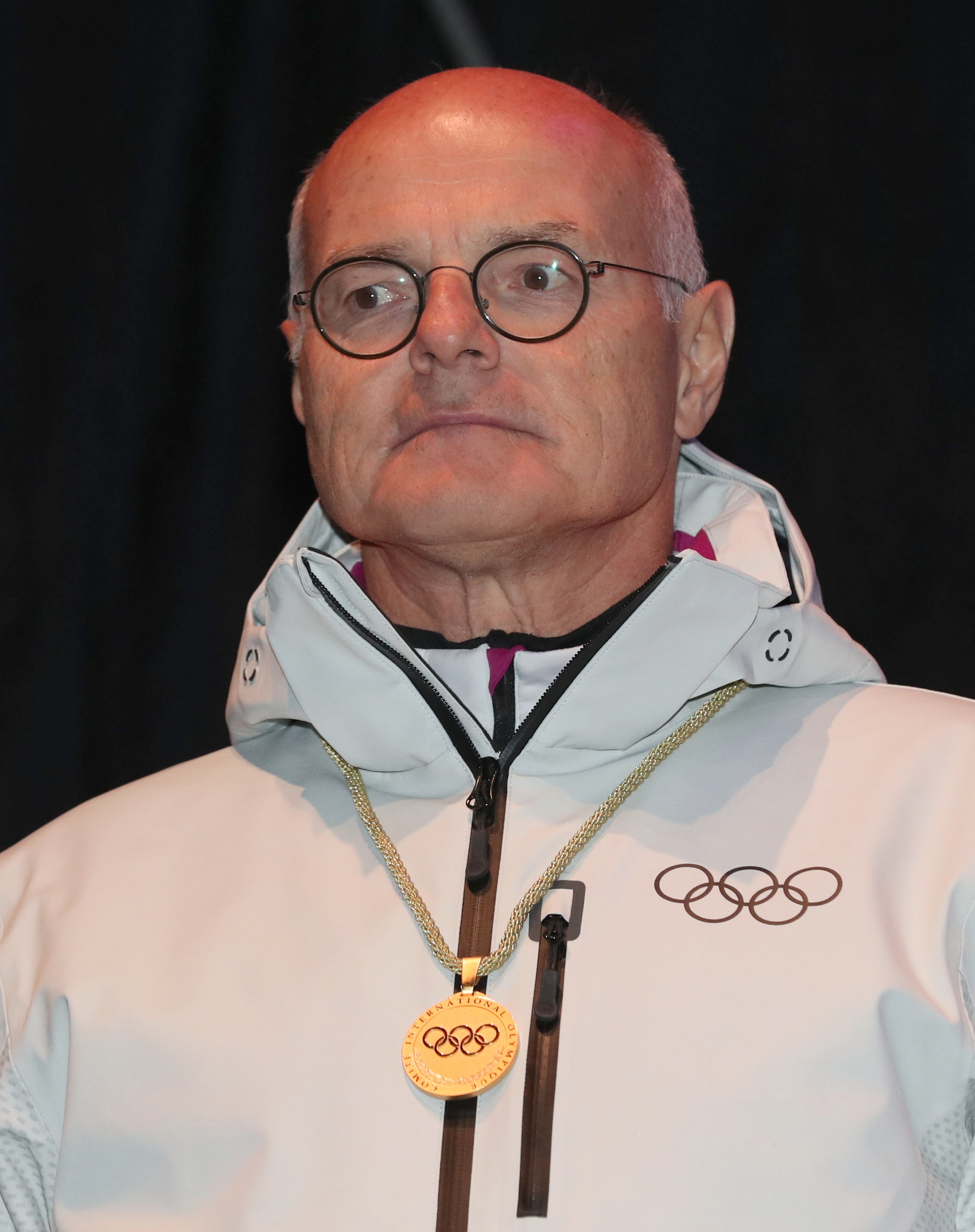 Medal Ceremony Day 9 in St. Moritz, 2020 Winter Youth Olympics in Lausanne